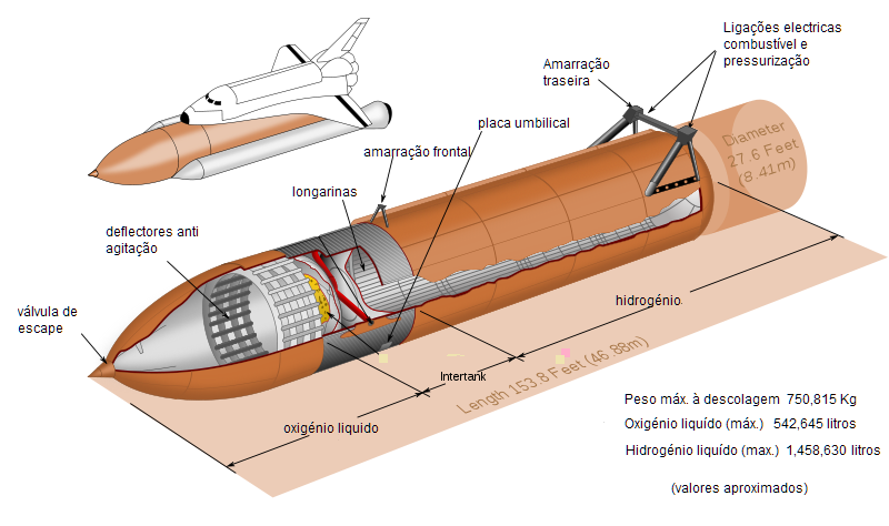 Shuttle external fuel tank graphics (Portuguese version)